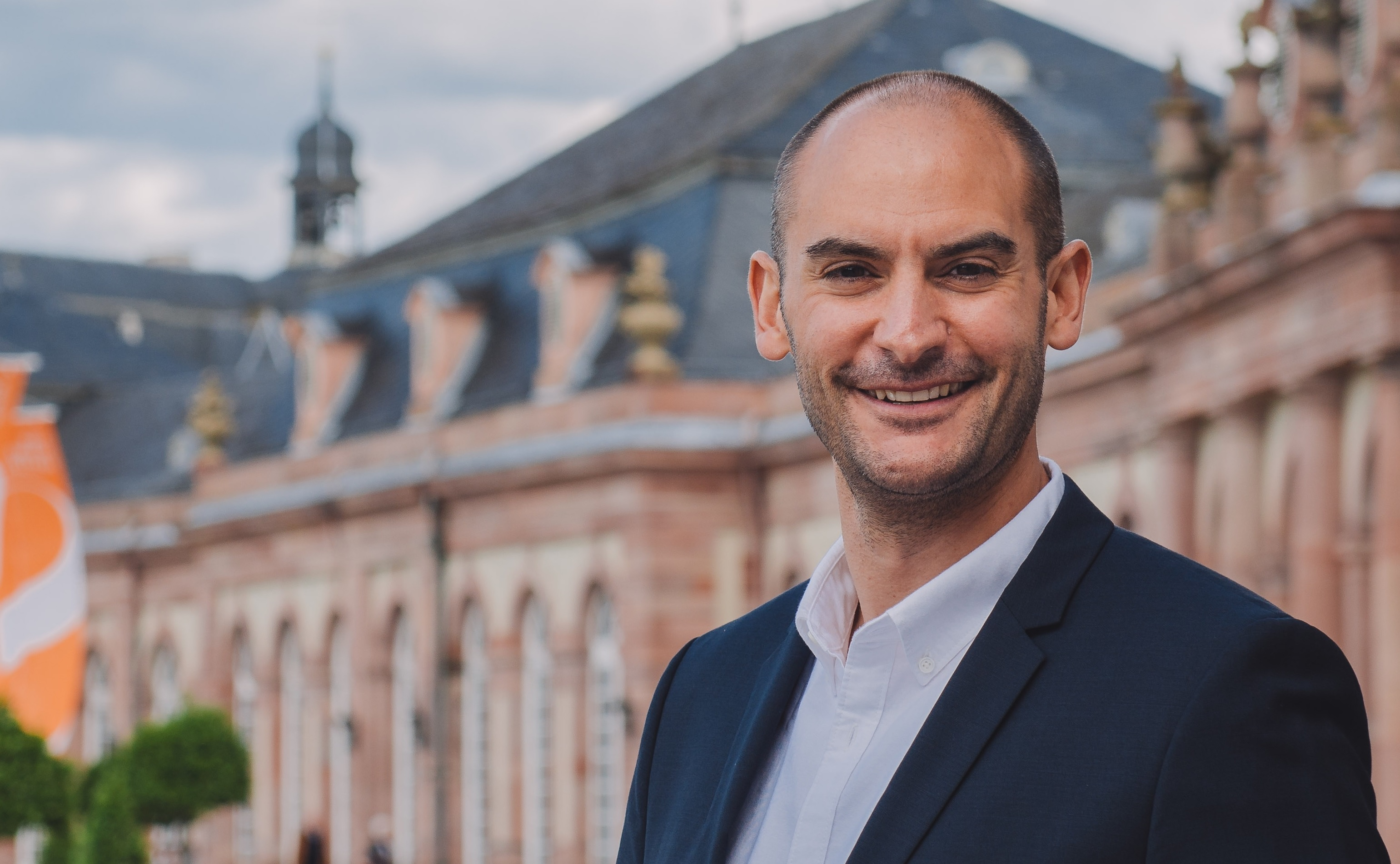 Danyal Bayaz in Schwetzingen (2018)